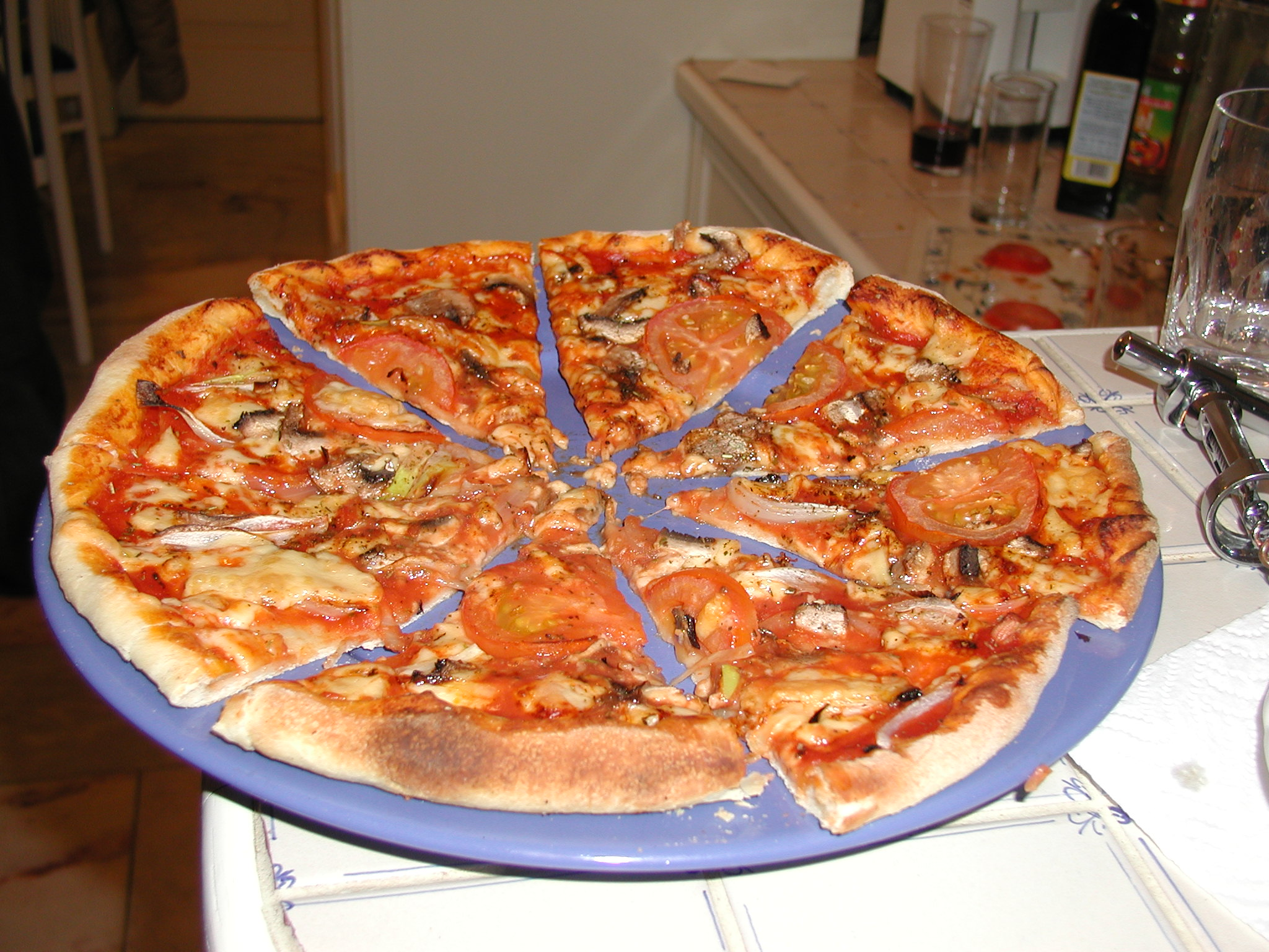 A pizza with tomato sauce, cheese, tomatoes, field mushrooms, onion etc.